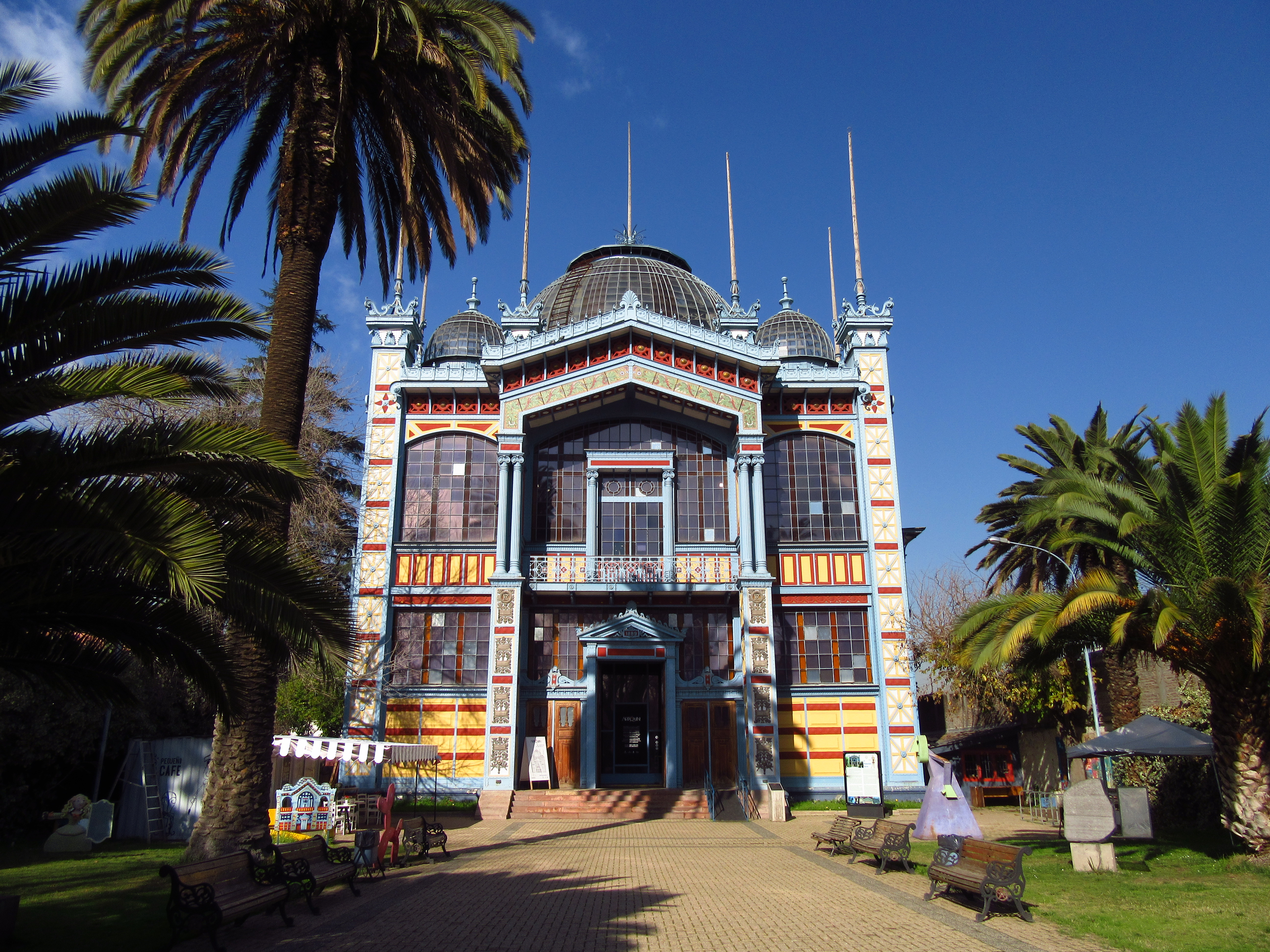 2017 in Santiago de Chile